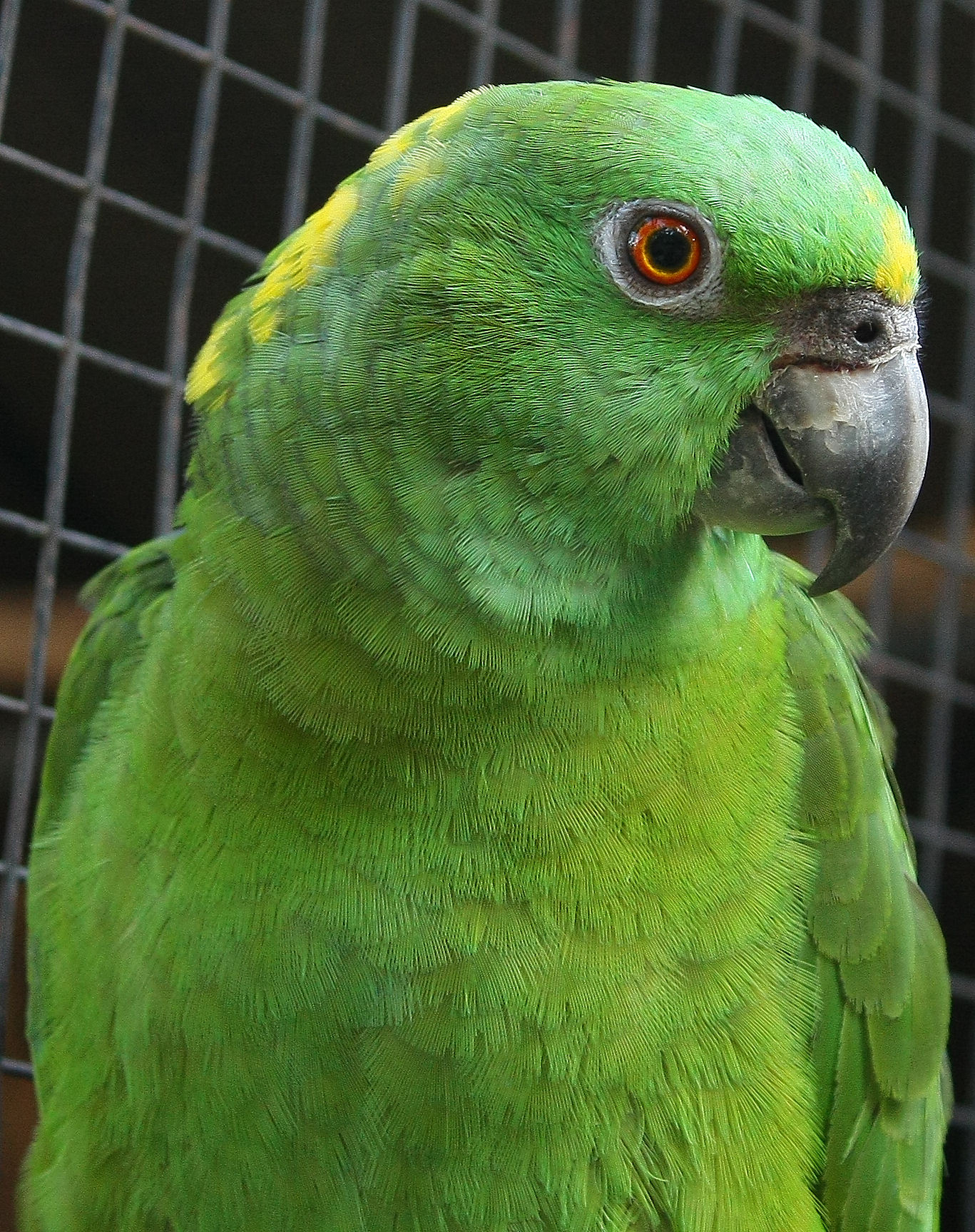 Yellow-naped Parrot or Yellow-naped Amazon (Amazona auropalliata) in captivity. Upper body.